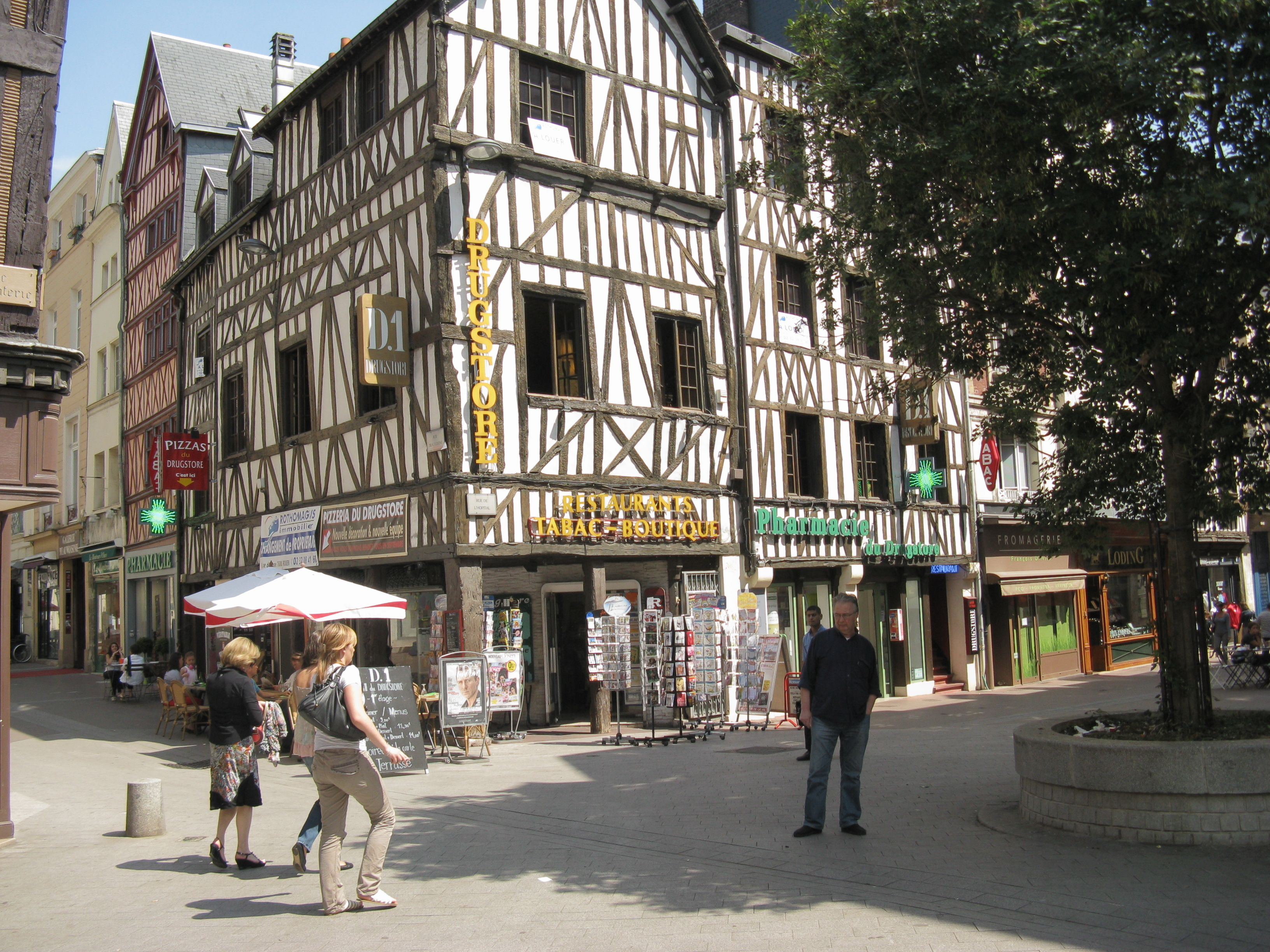 Rue de l'Hôpital corner Rue Beauvoisine, Rouen, Seine-Maritime, Normandie, France